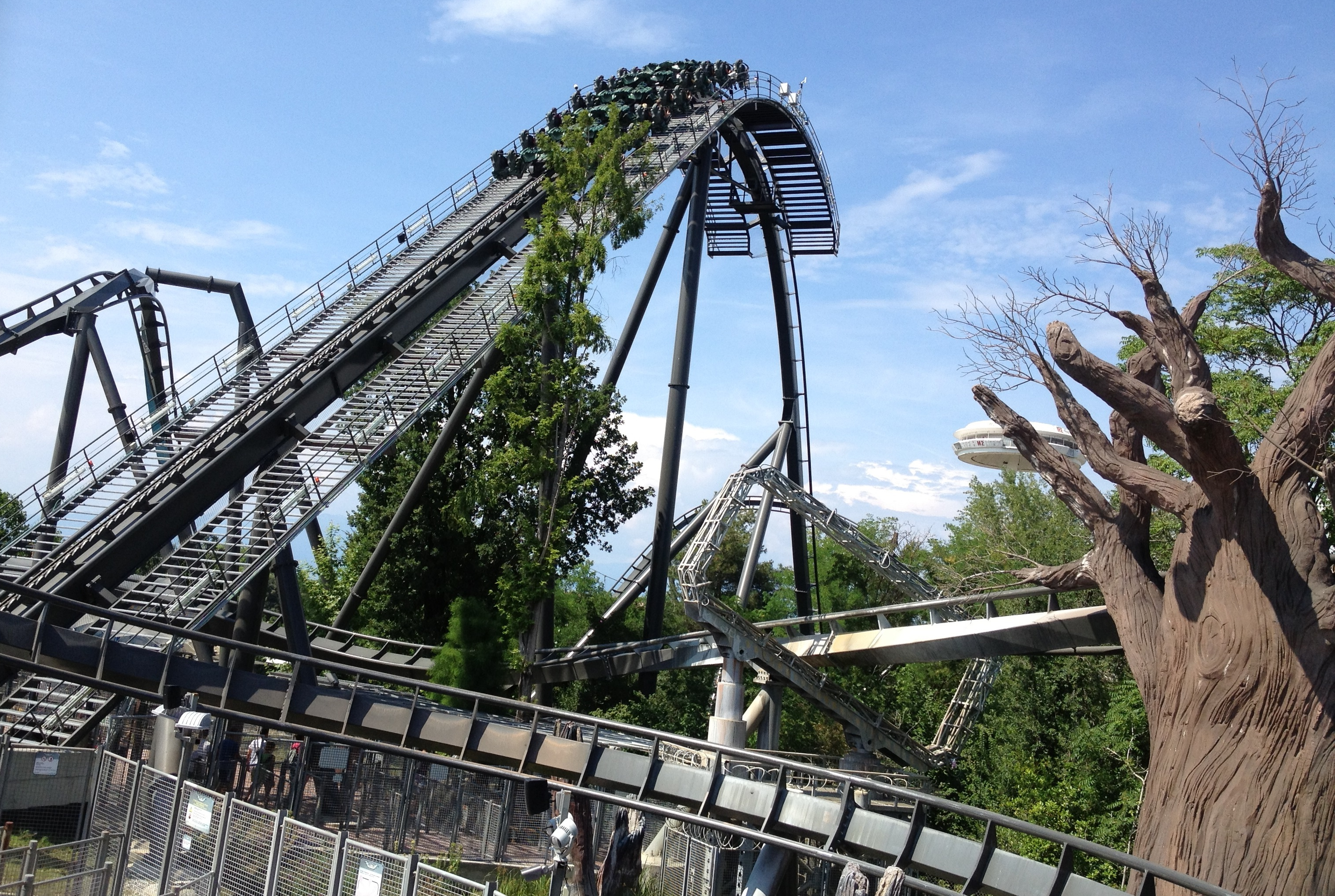 Raptor lift hill at Gardaland, Italy